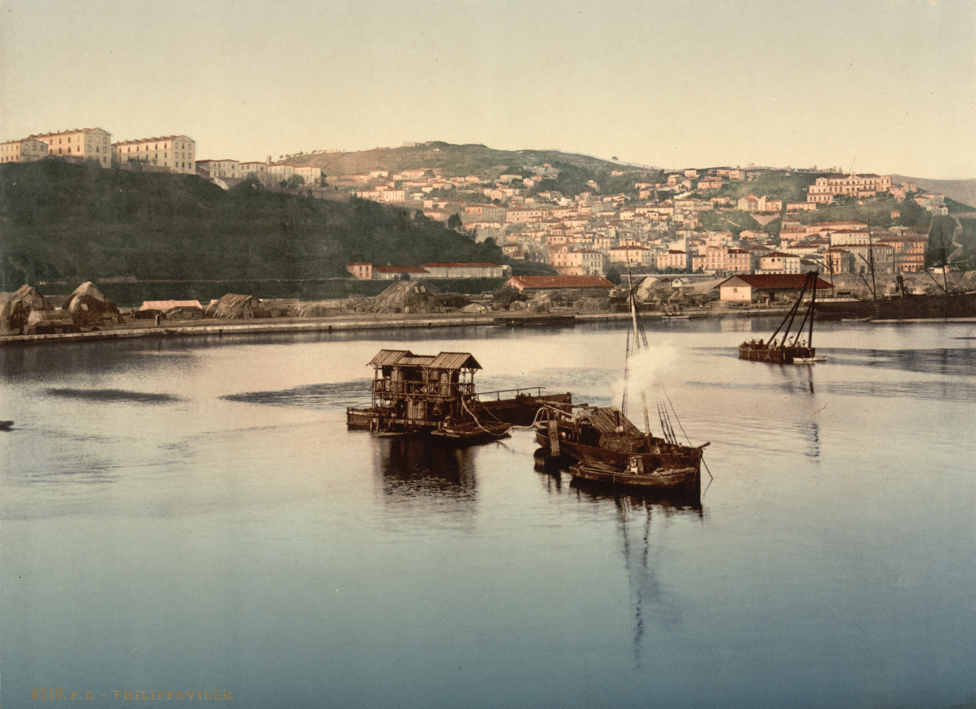 Philippeville Algeria